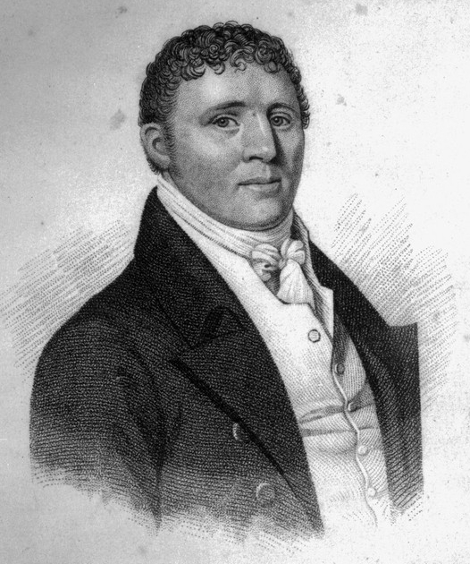 George Cooper (boxer)